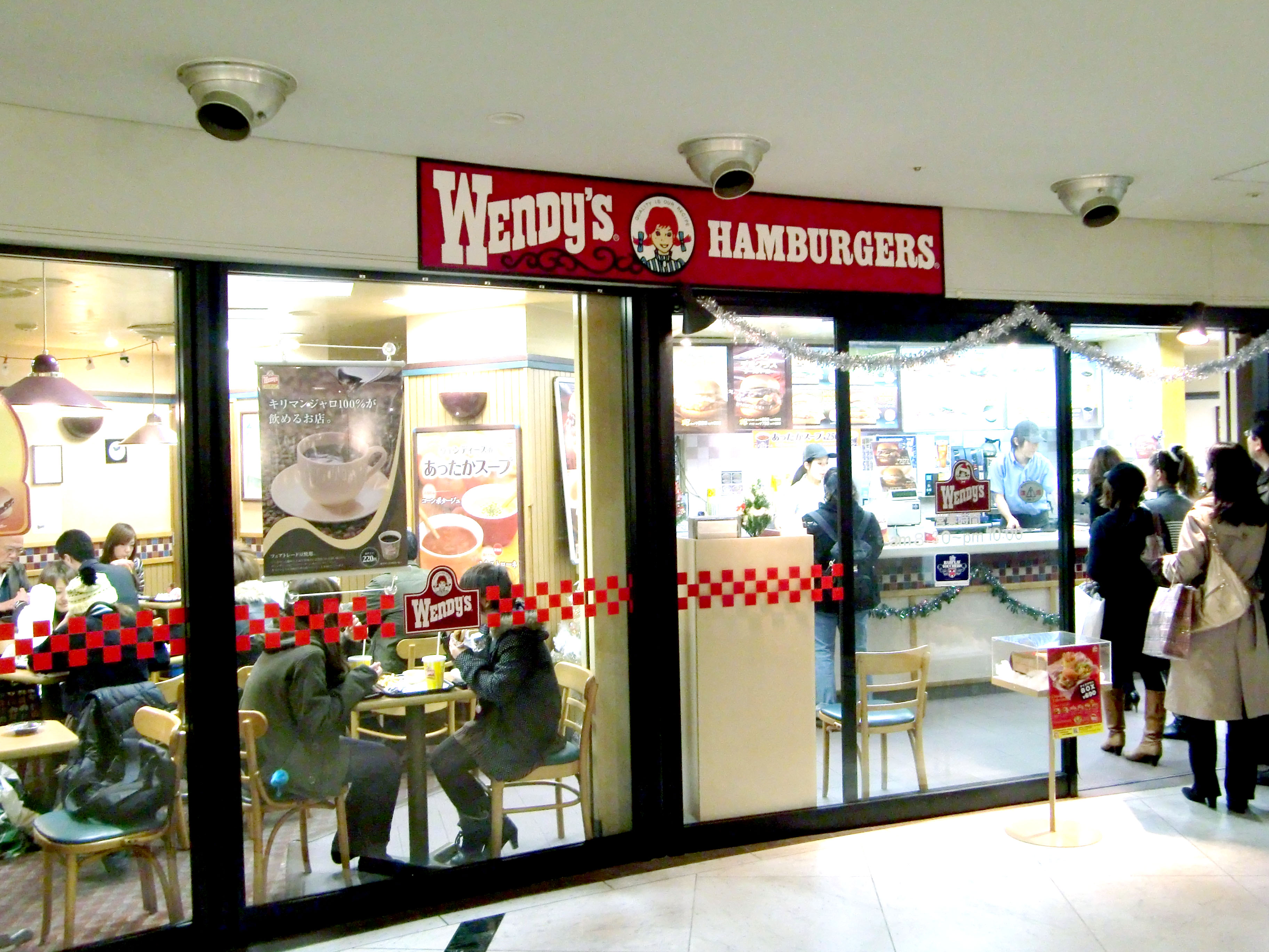 Wendy's Umeda,1-12-17 Umeda Kita-Ku Osaka-City Osaka Japan.